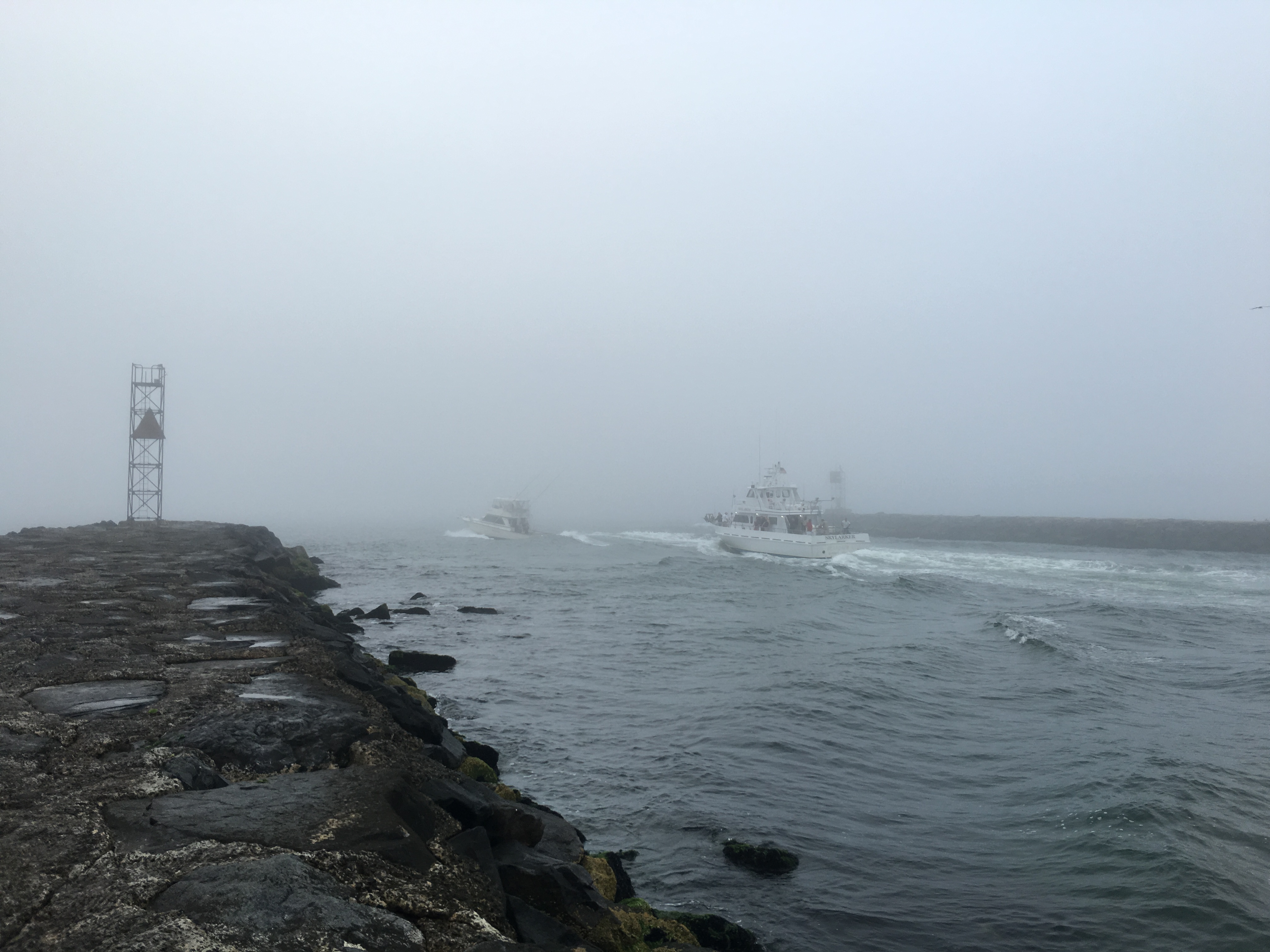 Charter boats leaving